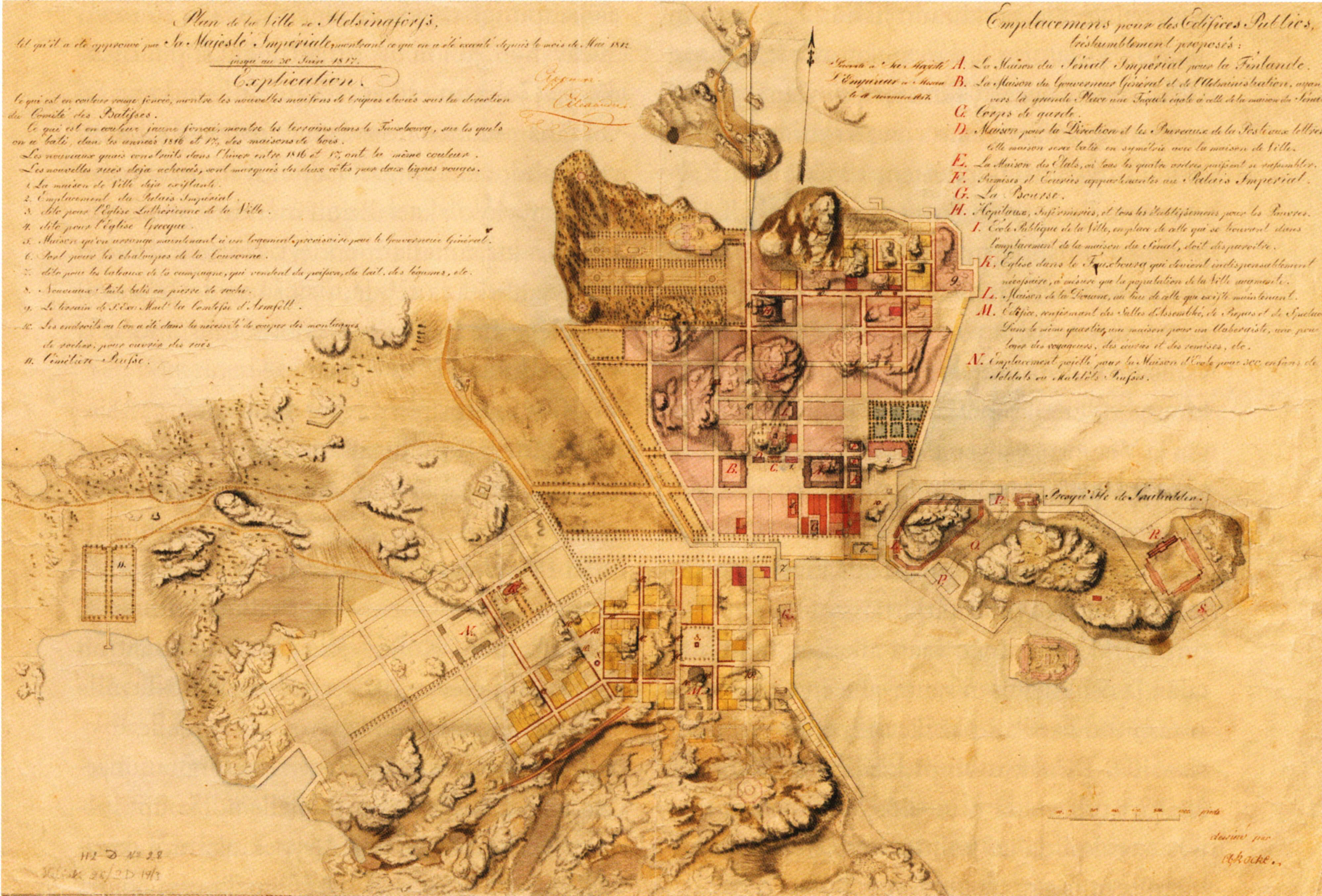 Final form of Helsinki city plan designed by Johan Albrecht Ehrenström.